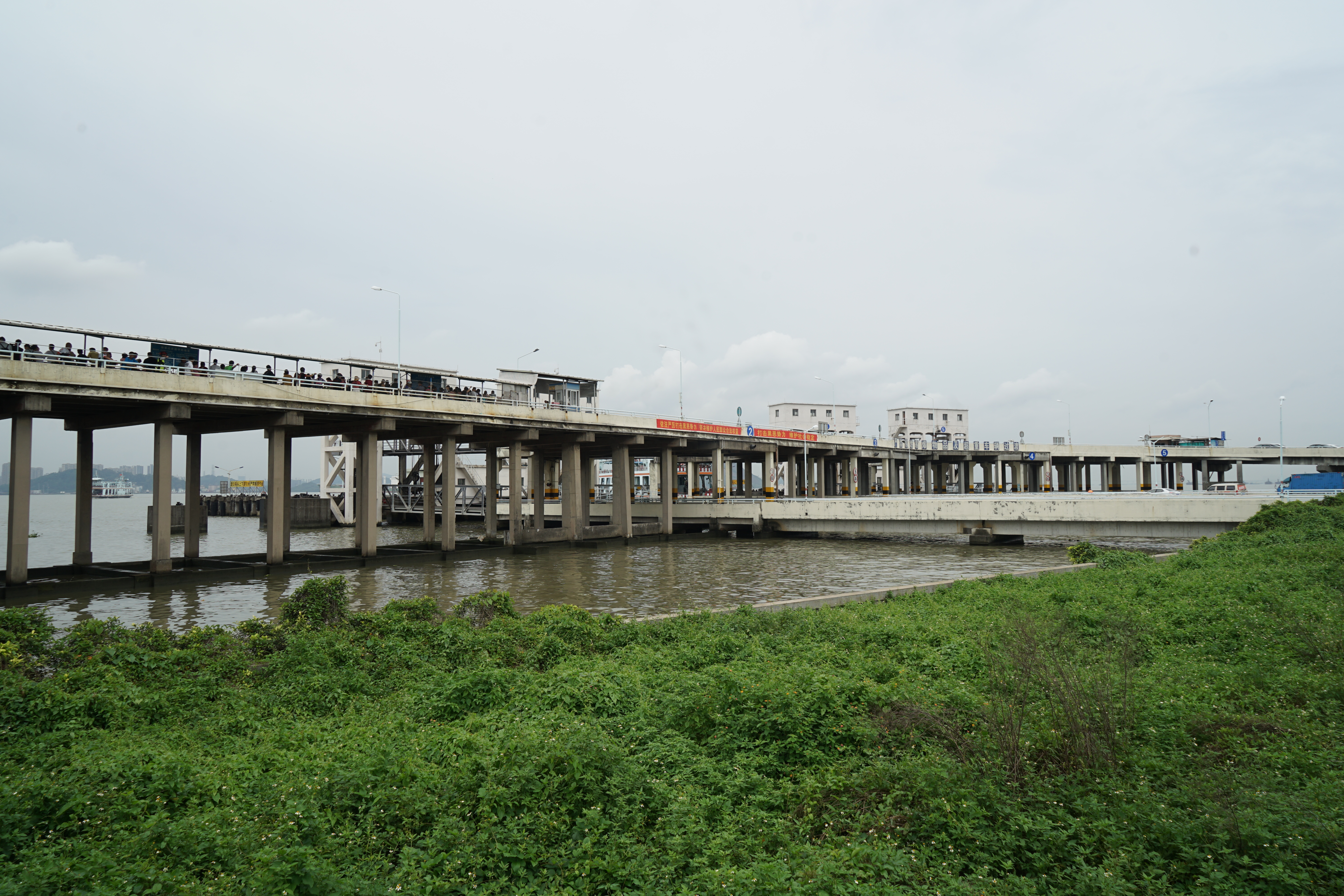 Humen Vehicle Ferry Pier Panyu Side